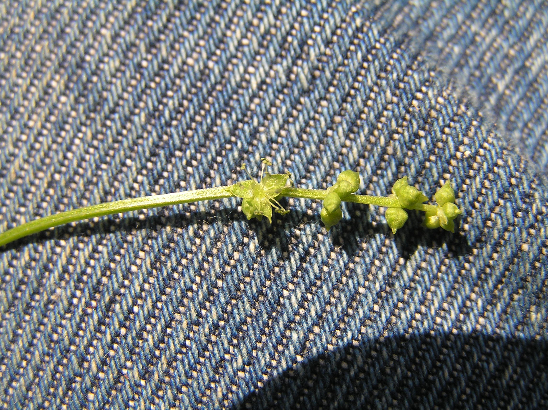 Mercurialis perennis, Choceň, Czech Republic